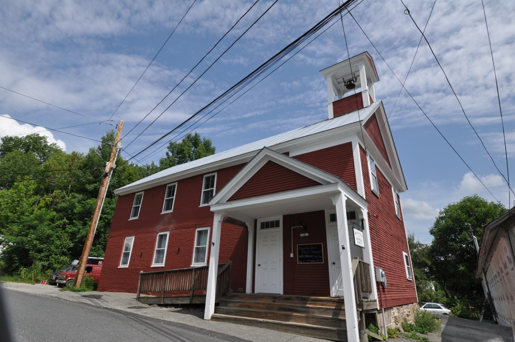 Bridgewater Historical Society, Bridgewater, Vermont.